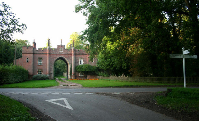 Dog Corner, Heydon A gatehouse to Heydon Park on the Heydon Road.